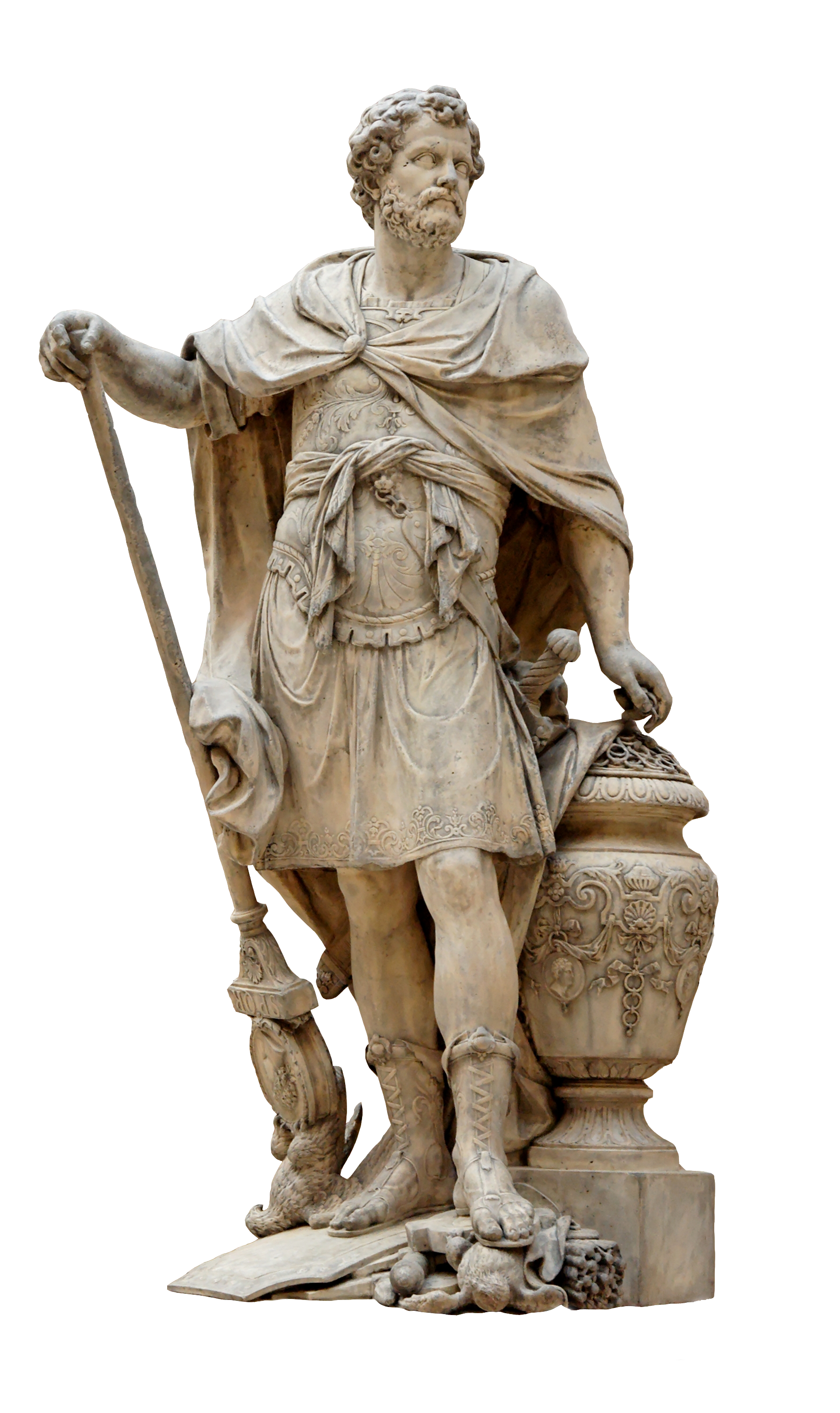 Hannibal Barca counting the rings of the Roman knights killed at the Battle of Cannae (216 BC). Marble, 1704.